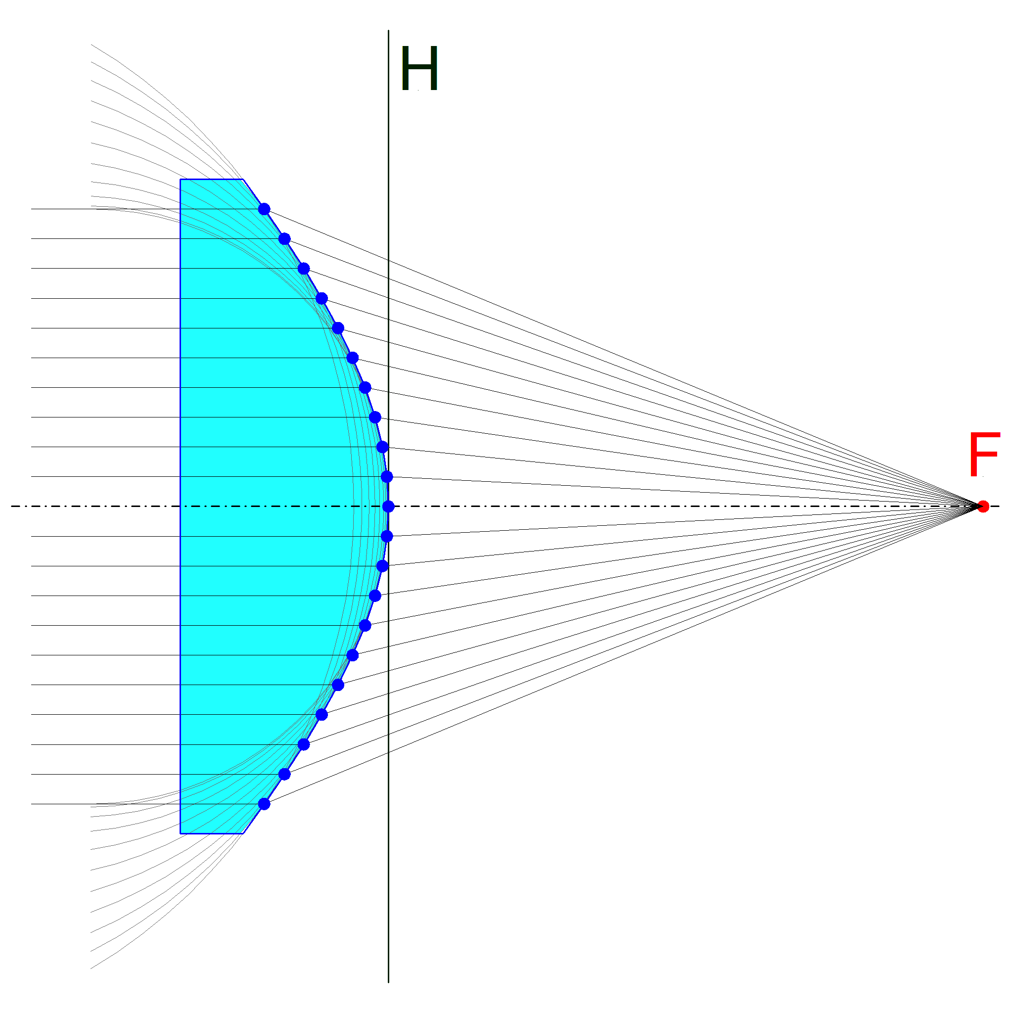 Example of an aspheric plano-convex lens with the principal plane H and the focal point F